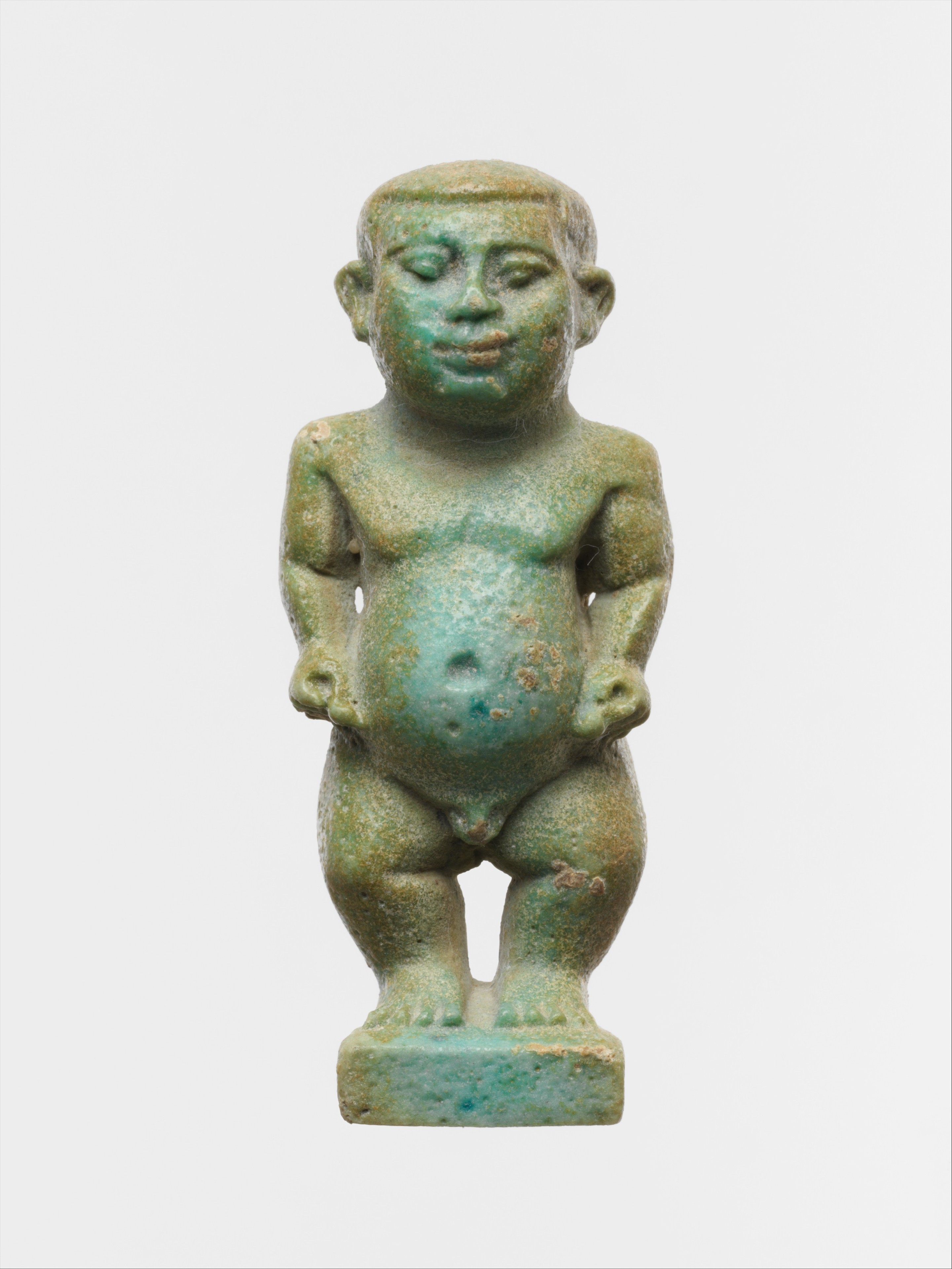 Egyptian, Ptolemaic; Amulet, Ptah-seker; Gold and Silver